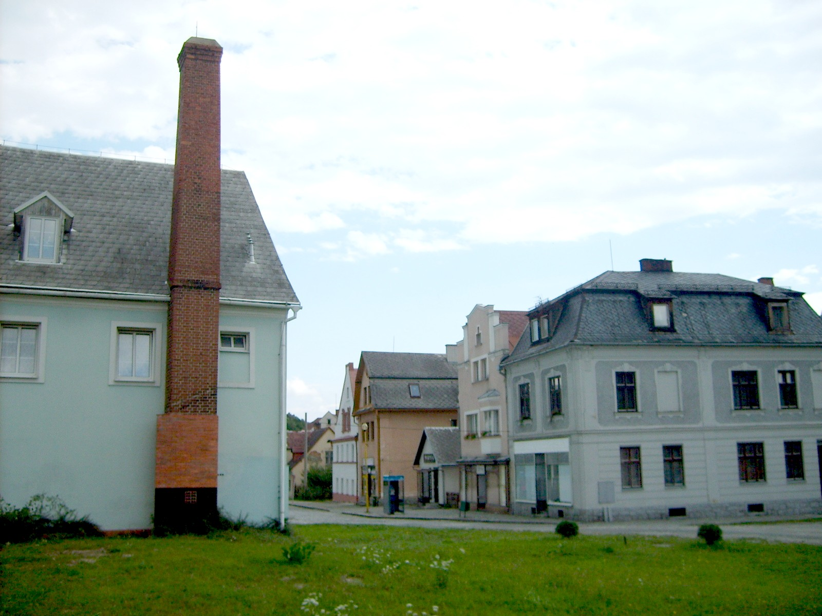 old houses in Žulová